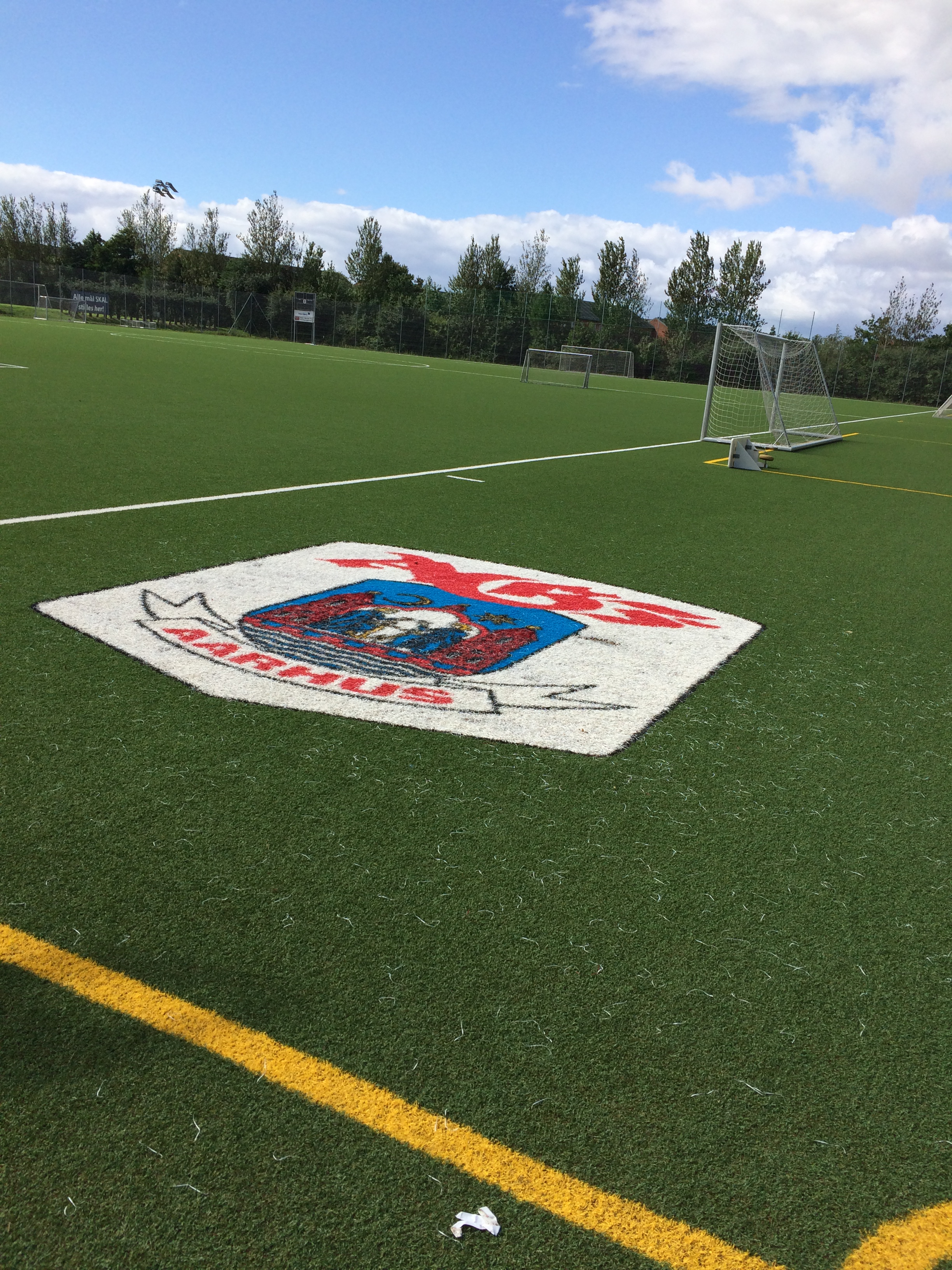 One of Aarhus Gymnastik Forening's artificial grass fields